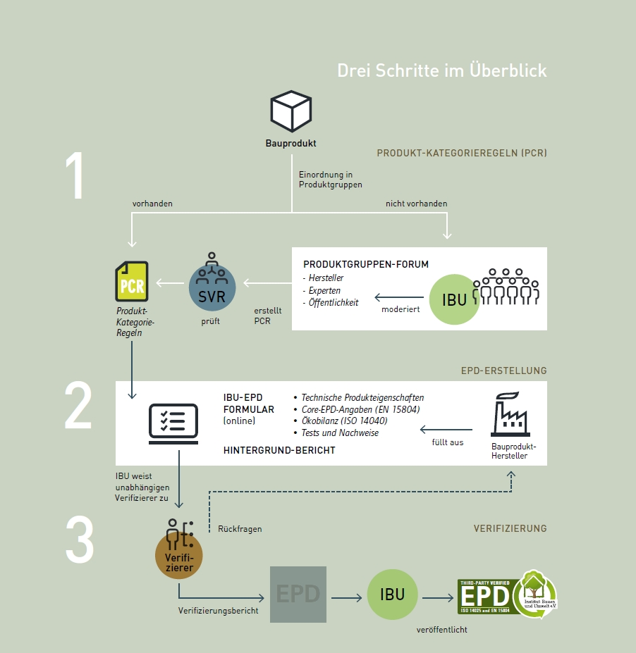 3 steps of EPD creation in the declaration programm of IBU